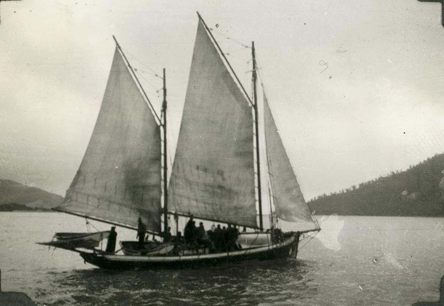 Pearl lugger Tranton in the Whitsunday Islands, ca.1938 Creator: Unidentified. Location: Whitsunday Islands, Queensland. Description: A pearling lugger under full sail in the Whitsunday Islands View the original image at the State Library of Queensland: Information about State Library of Queensland’s collection: You are free to use this image without permission. Please attribute State Library of Queensland.